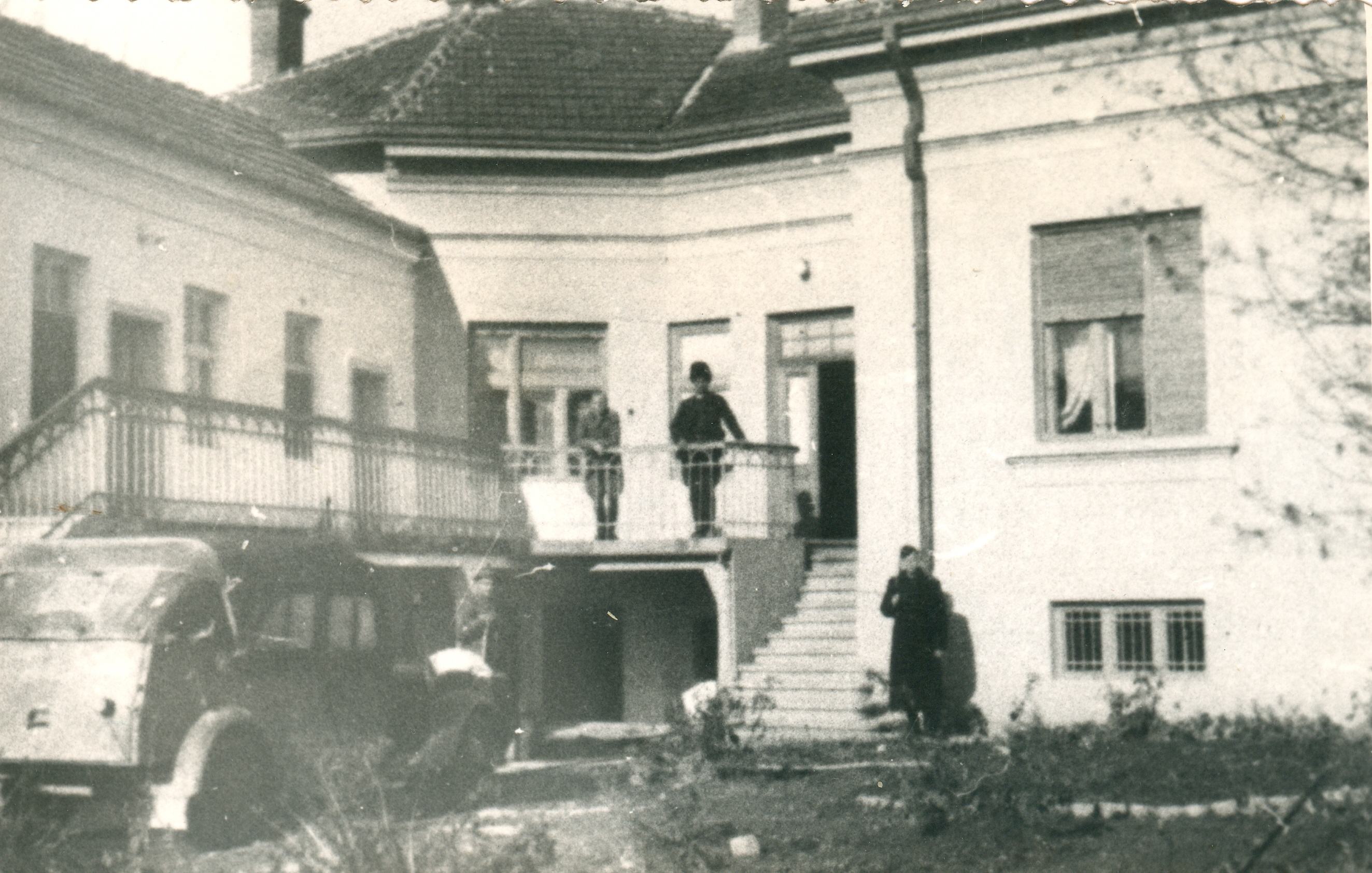 Gestapo building in Negotin Srpski (latinica): Zgrada Gestapoa u Negotinu